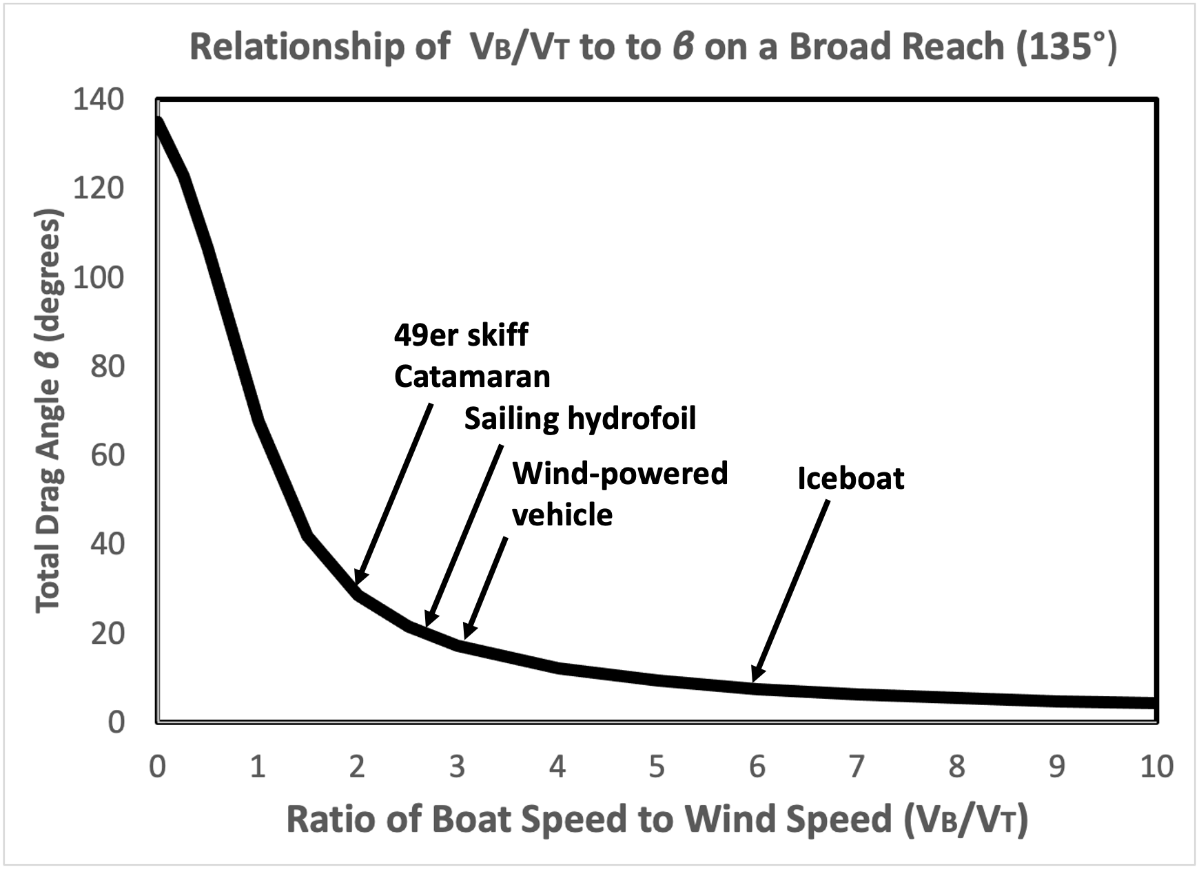 This curve is calculated, using the formula: β = 90° – arctan {[VT sin (90° – true wind angle) + VB] / [VT cos (90° – true wind angle)]}[1] for a true wind angle of 135° and using various multiples of VT = 10 for VB. The performance characteristics of a variety of high-performance sailing craft are called out.